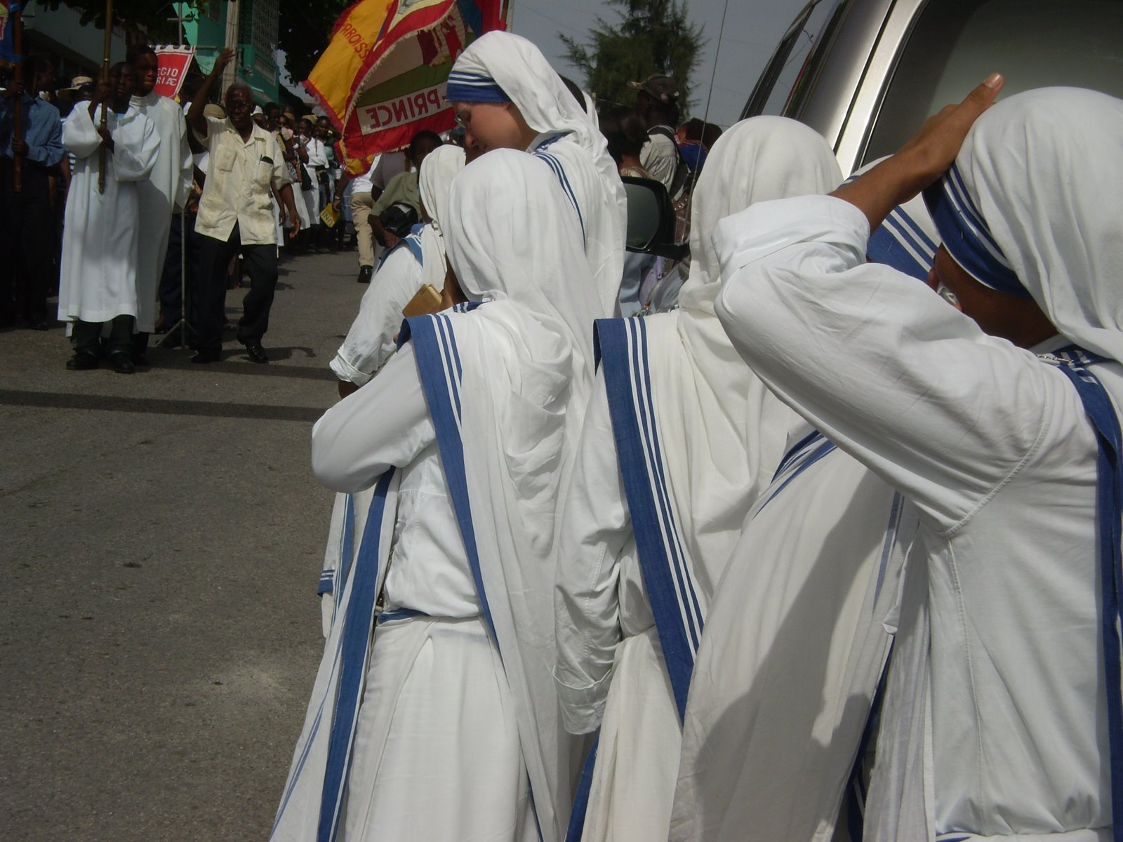 Missionaries of Charity weaing the traditional Sari during a religious procession in the streets of Port-au-Prince, Haiti, on the occasion of the feast of Saint Perpetua.